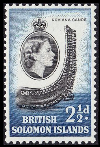 Stamp of the British Solomon Islands, roviana canoe, 1960, 2,5d.